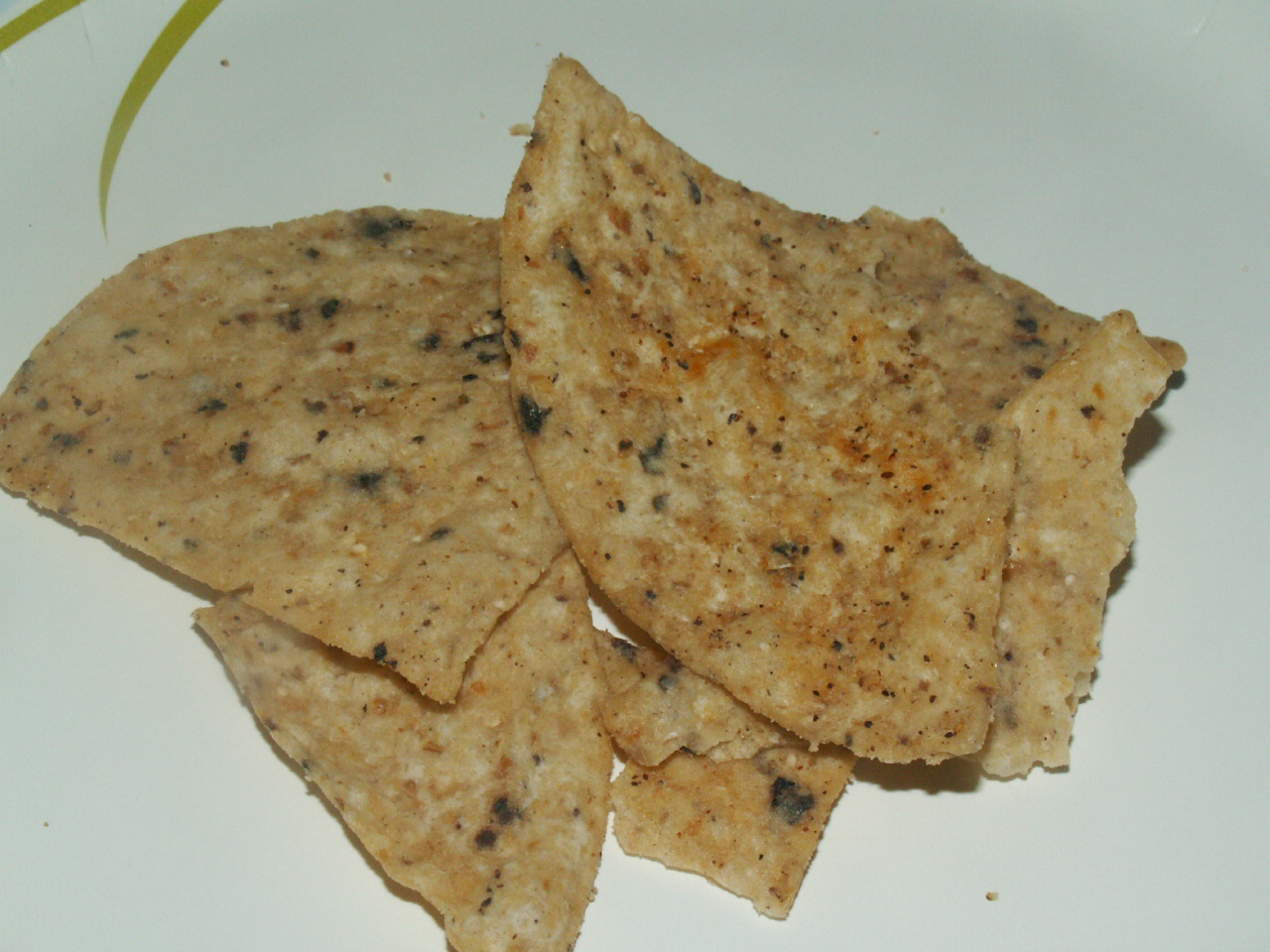 Read a Tostitos Artisan Recipies review here